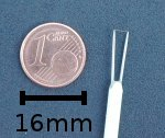 Hot wire anemometer estimate wind speed by the cooling rate of wire by the wind